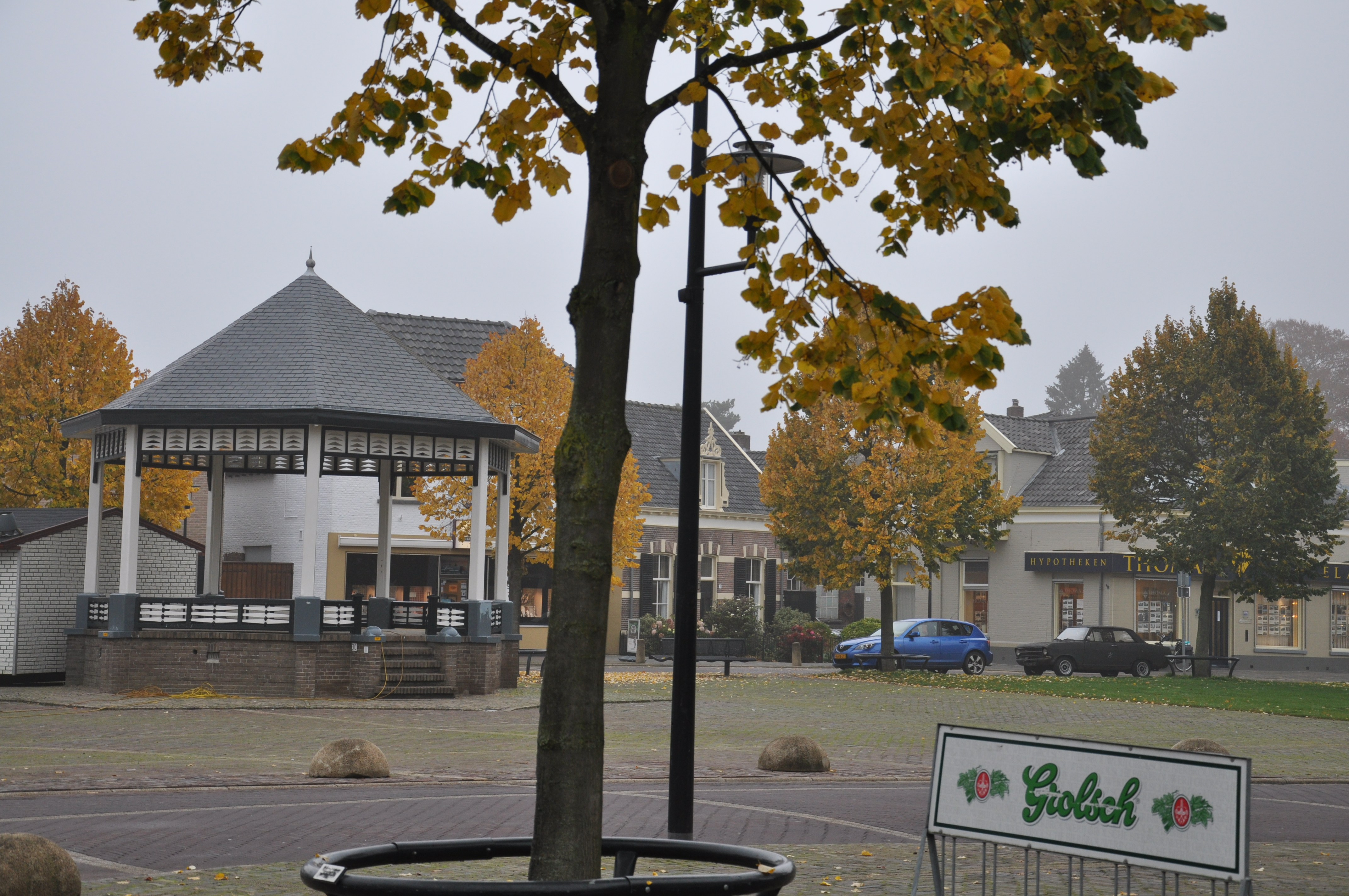 Brummen market square